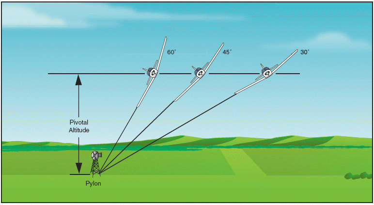 Diagram showing pivotal altitude from FAA Airplane Flying Handbook